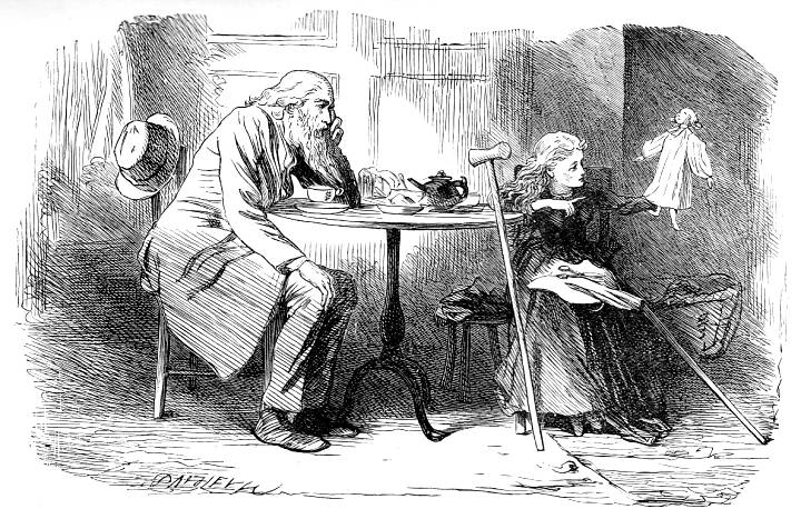 Jenny Wren and Mr Riah after Mr Doll's death